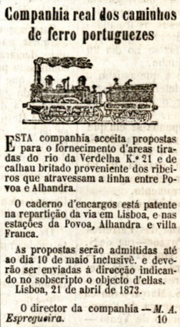 Tender notice of the Companhia Real dos Caminhos de Ferro Portugueses (Royal Company of the Portuguese Railways), for the supply of sand and crushed stone. This image was published on the Diario Illustrado newspaper No. 282, of 26th April 1873, and scanned by the Biblioteca Nacional de Portugal.